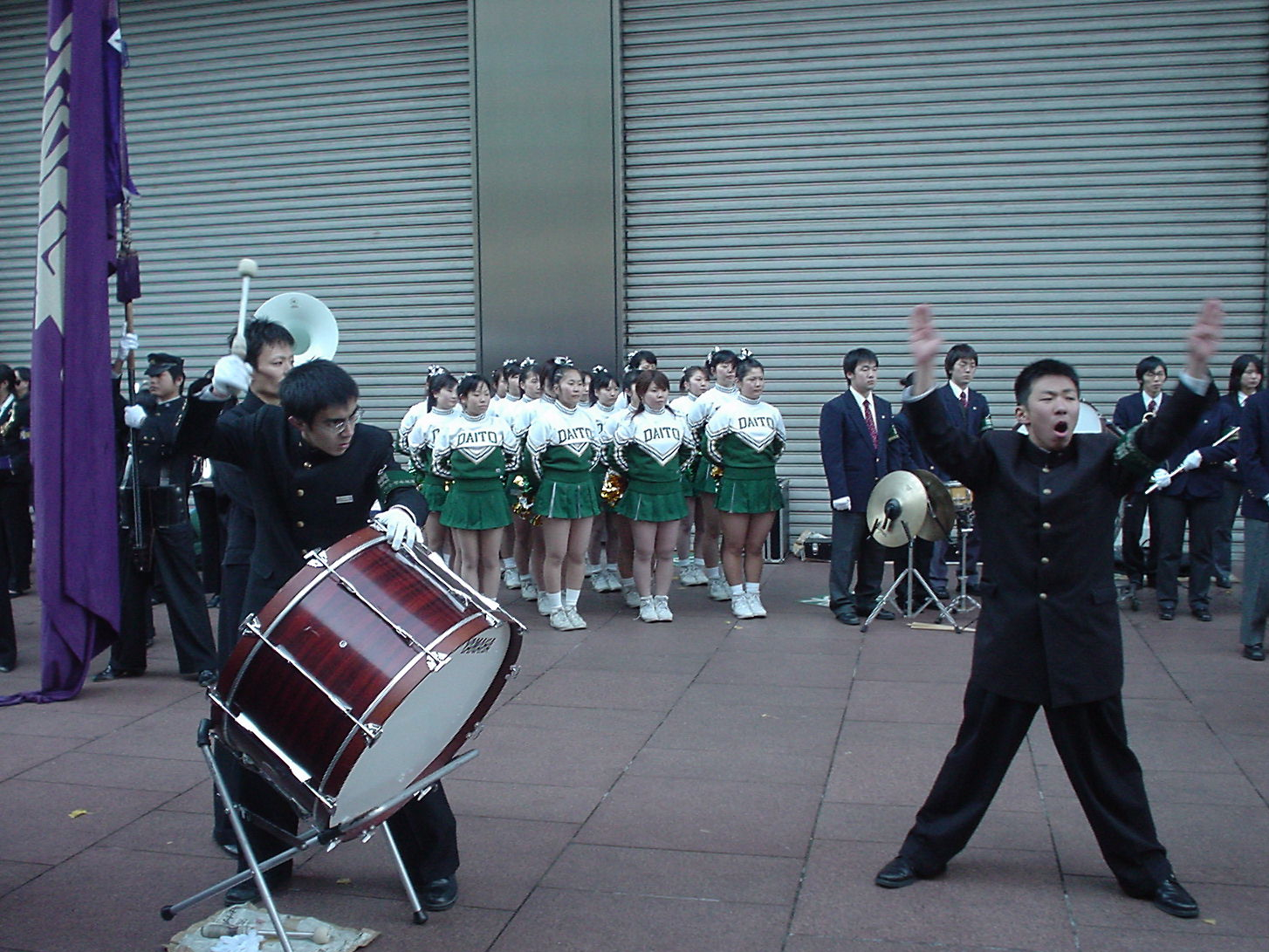 Daito Bunka University cheer squad holds a rally for their ekiden team at the Hakone Ekiden in Tokyo.